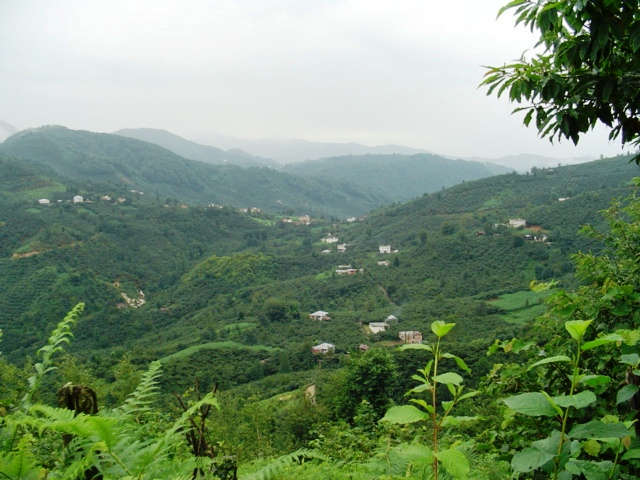 A view of Cibril Village of Espiye district in Giresun province in Turkey.